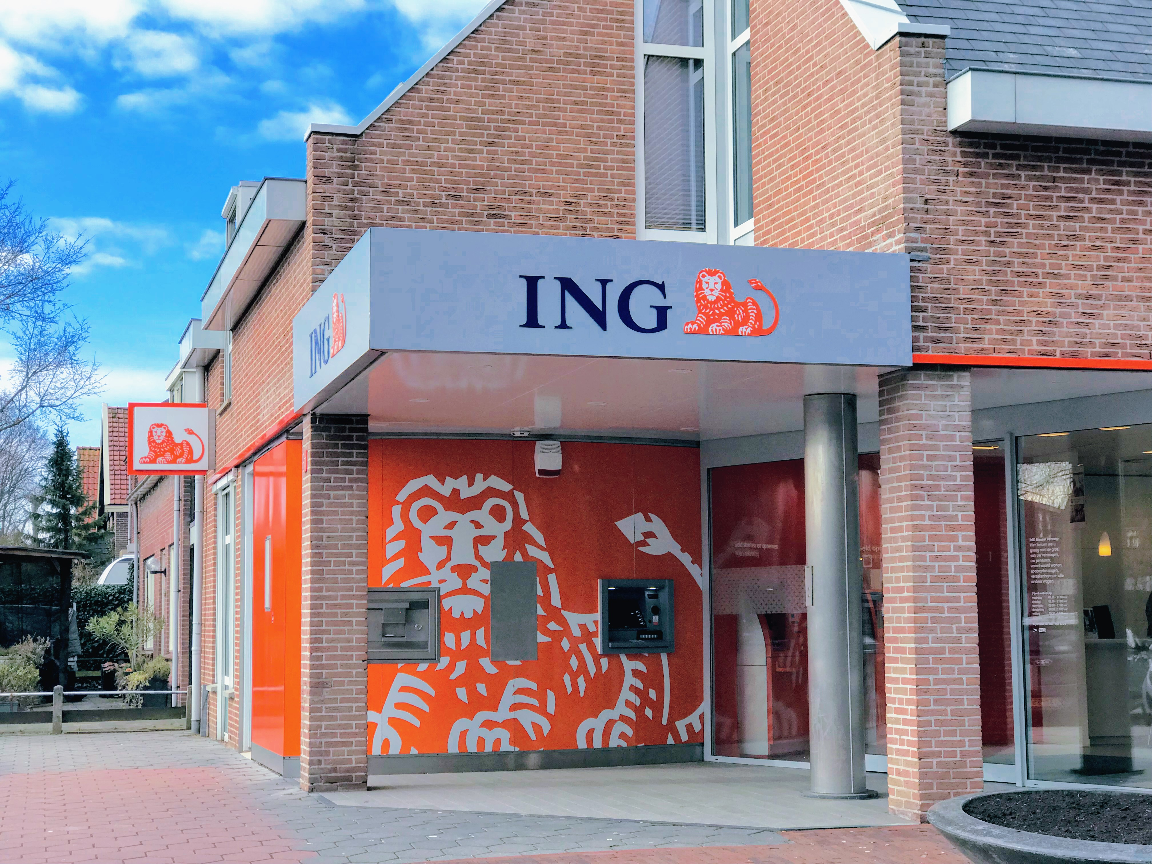 ING Bank Nieuw-Vennep